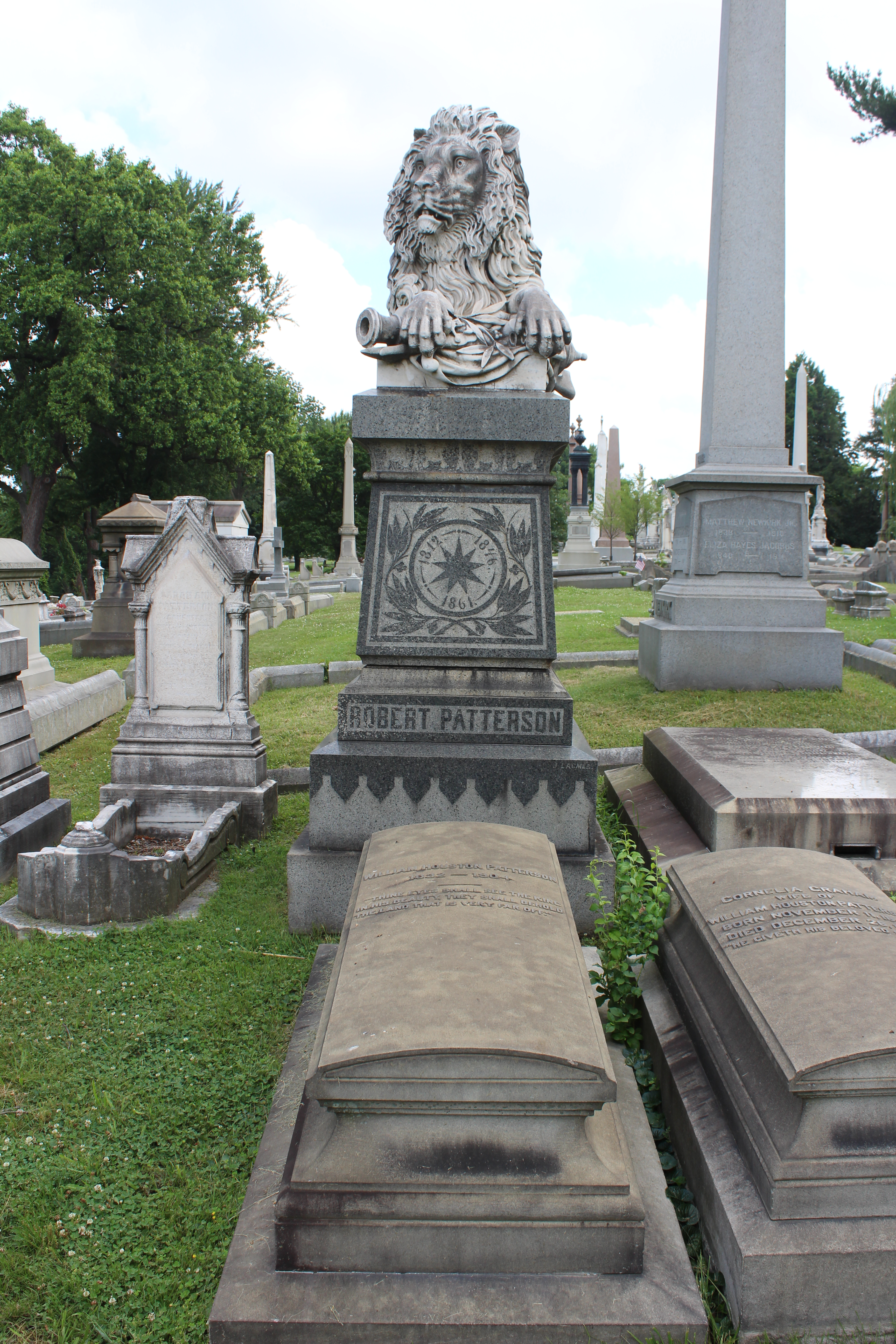 Robert Patterson memorial and tombstone in Laurel Hill Cemetery. Photo taken June 2020.